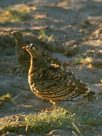 Pair of Lichtenstein's sandgrouse photographed near Loyangalani, Kenya